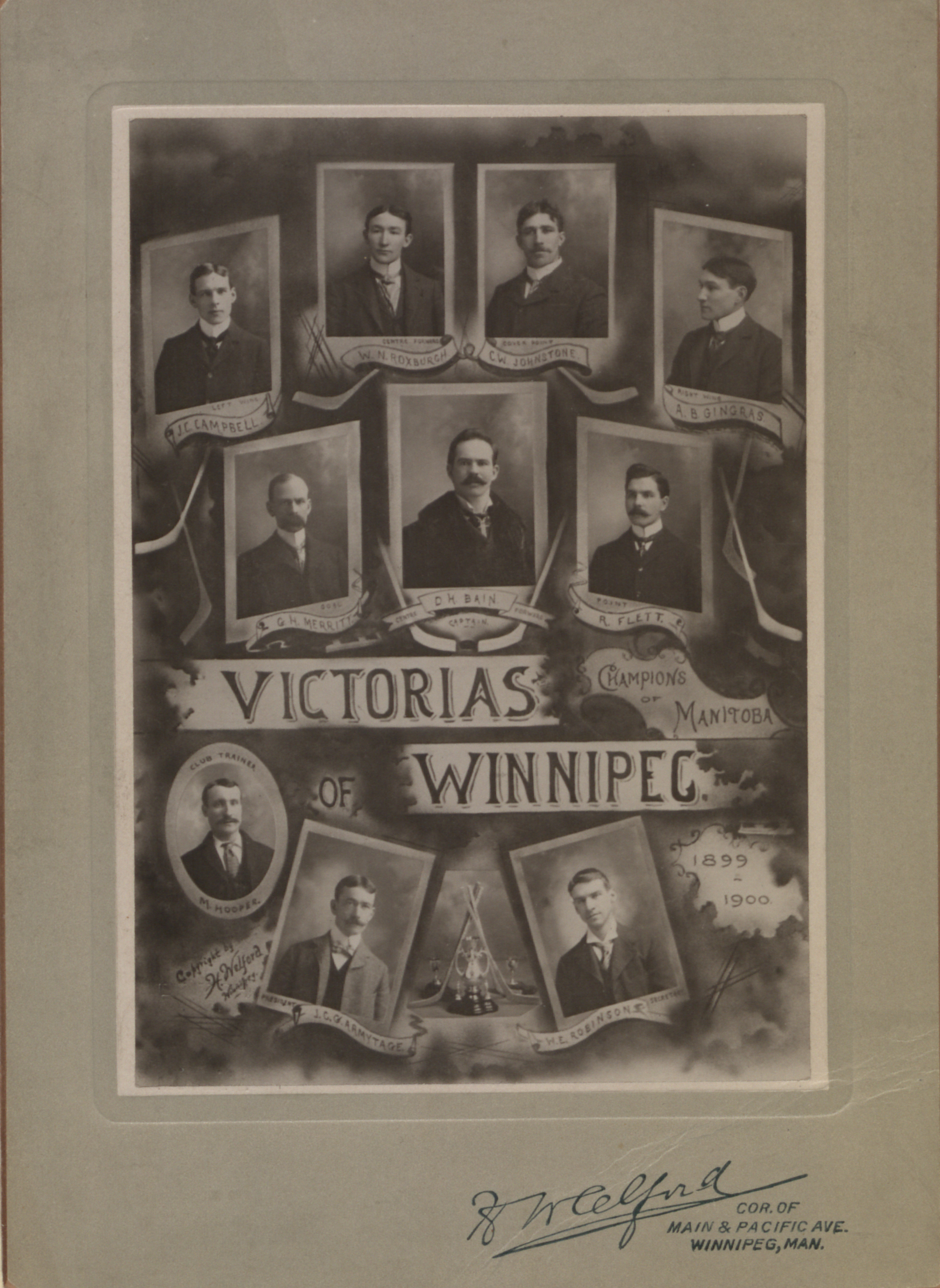 The Victories of Winnipeg; champions of Manitoba, 1899-1900. (Hockey.).